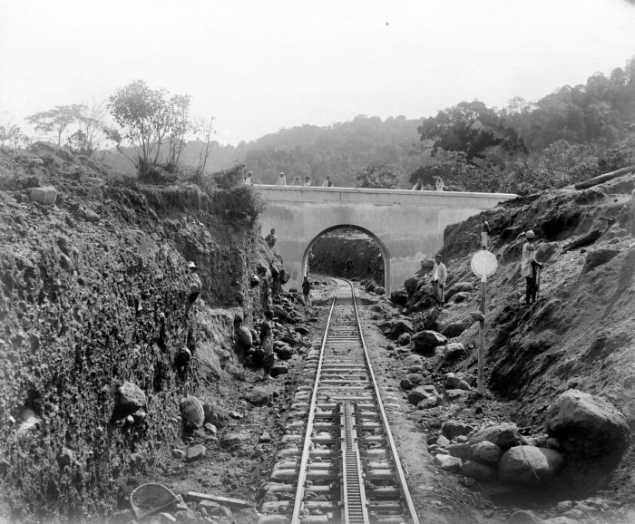 Aanleg lijn Kajoe Tanam-Padang Pandjang. Inrijdstuk tandradbaan bij viaduct bij Kajoetanam S.W.K.